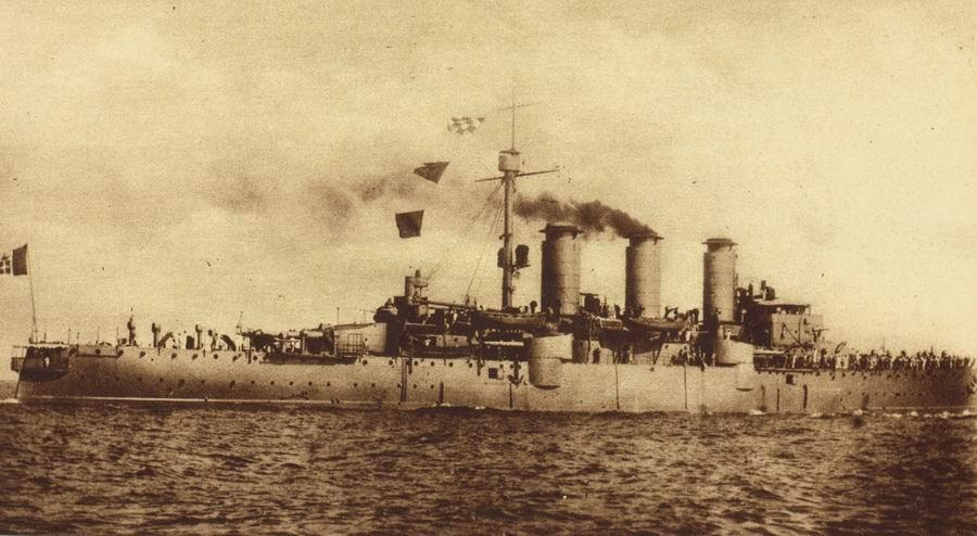 Italian armored cruiser Amalfi